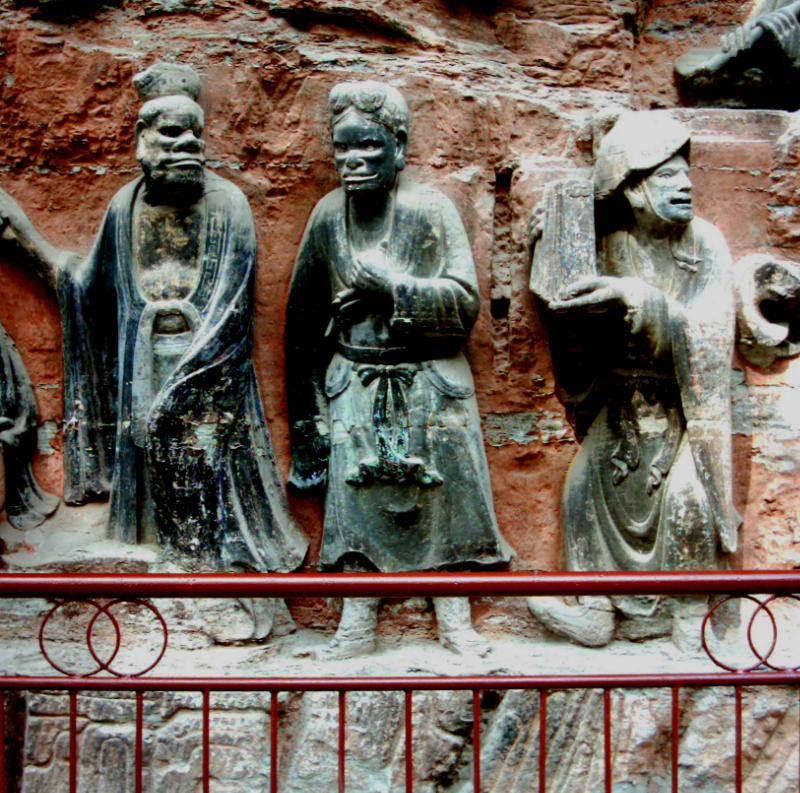 Dazu County Rock Carving, Chongqing, a UNESCO heritage site